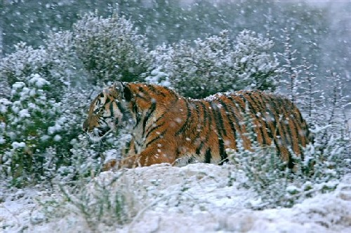 Madonna, South China Tigress, in snow